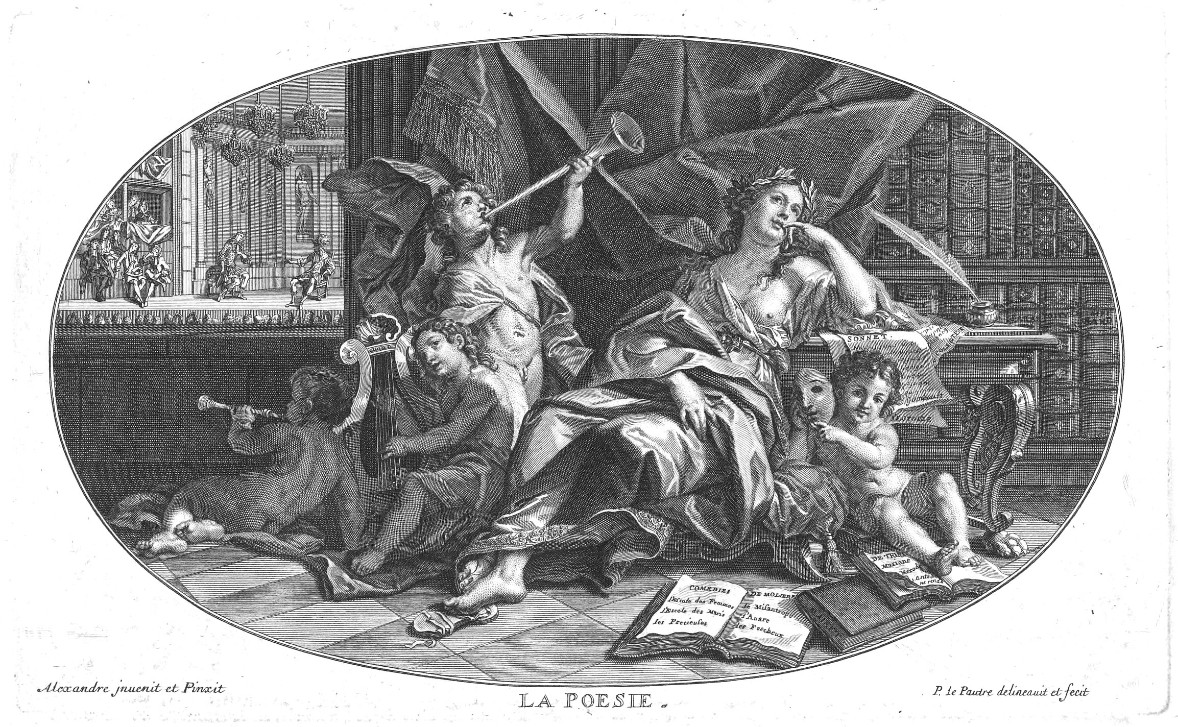 'La Poésie' by Julien Alexandre. The upper left depicts a performance at the Guénégaud Theatre in Paris which is believed to be a scene from Pierre Corneille's Cinna as performed during the 1679–1680 season.